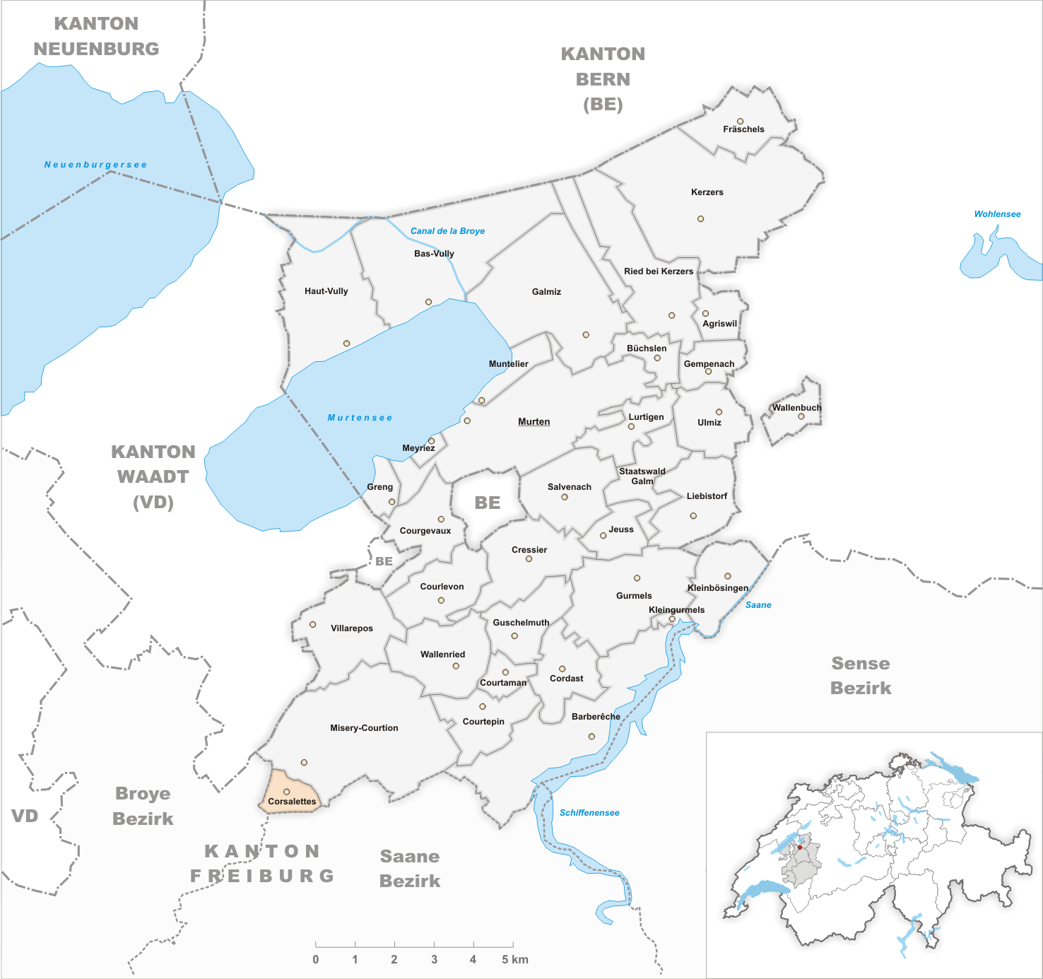 Municipality Corsalettes Artist: Tschubby